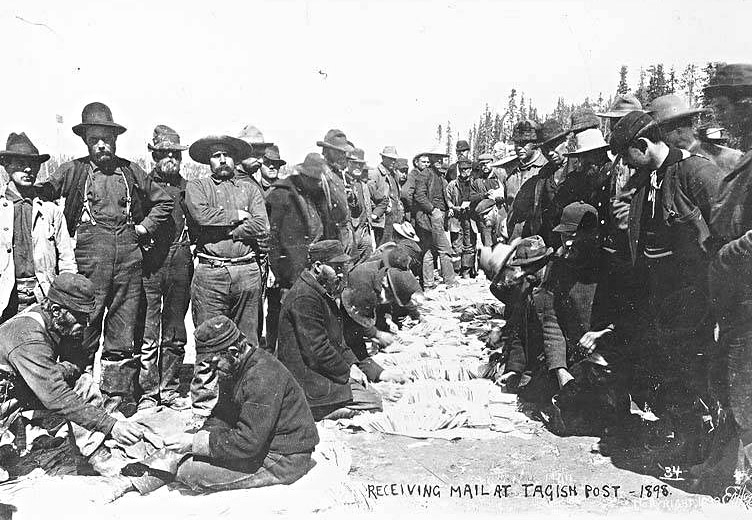 Settlement between Tagish Lake and Marsh Lake. A post office was opened on August 20, 1897. Klondike Gold Rush.